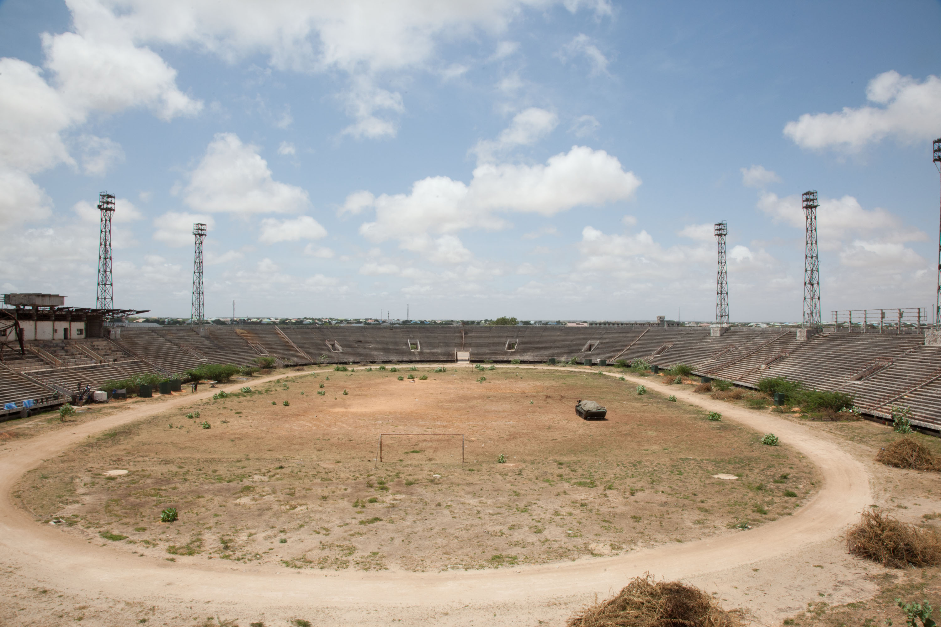 08/09/11- Mogadishu, Somalia - Mogadishu stadium, the former al-Shabaab headquarters. Al-Shabaab withdrew from Mogadishu on the 6th August 2011. Press Handout - AU/UN IST/ANTHONY HUNT